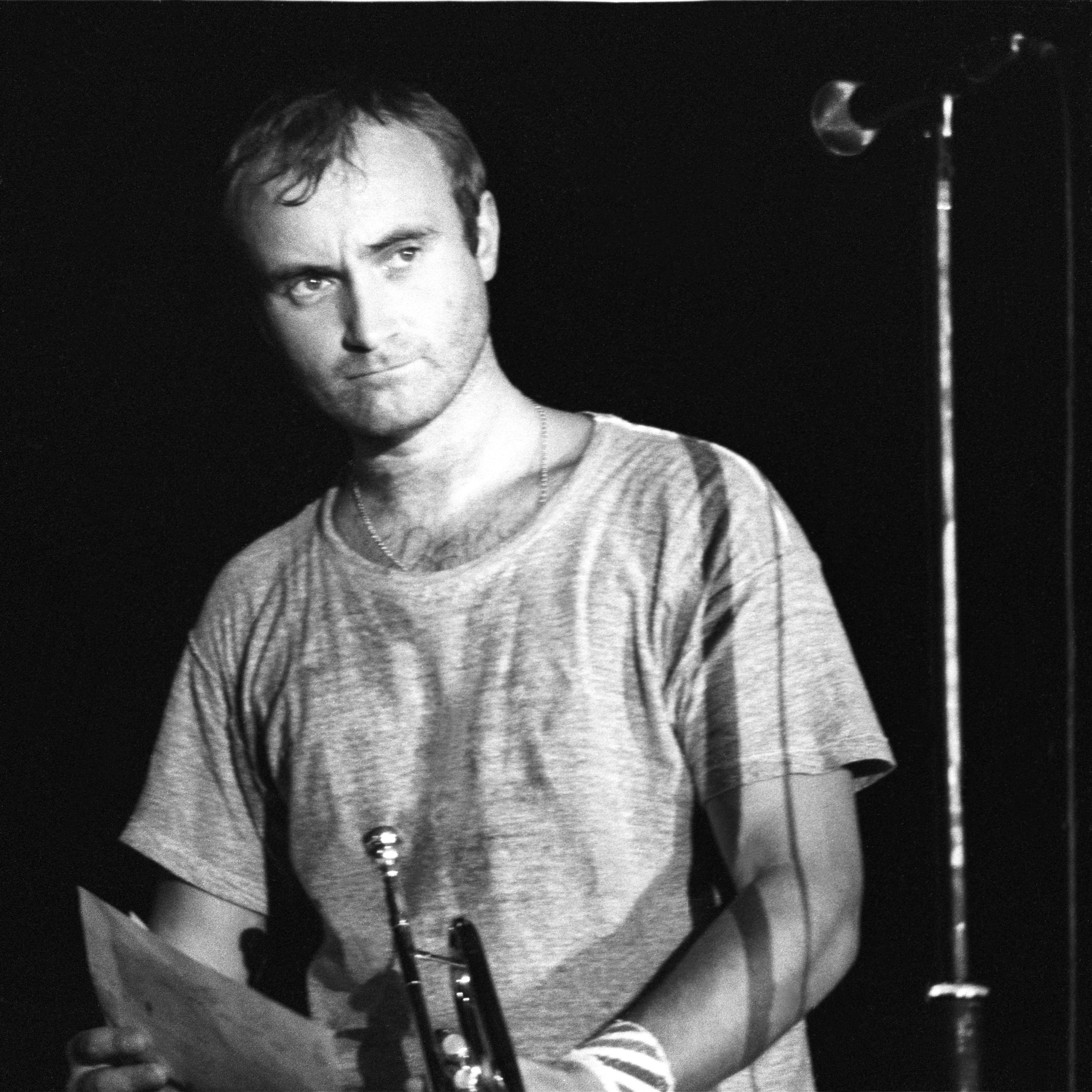 Phil Collins in Strasbourg-1981-10-a-07